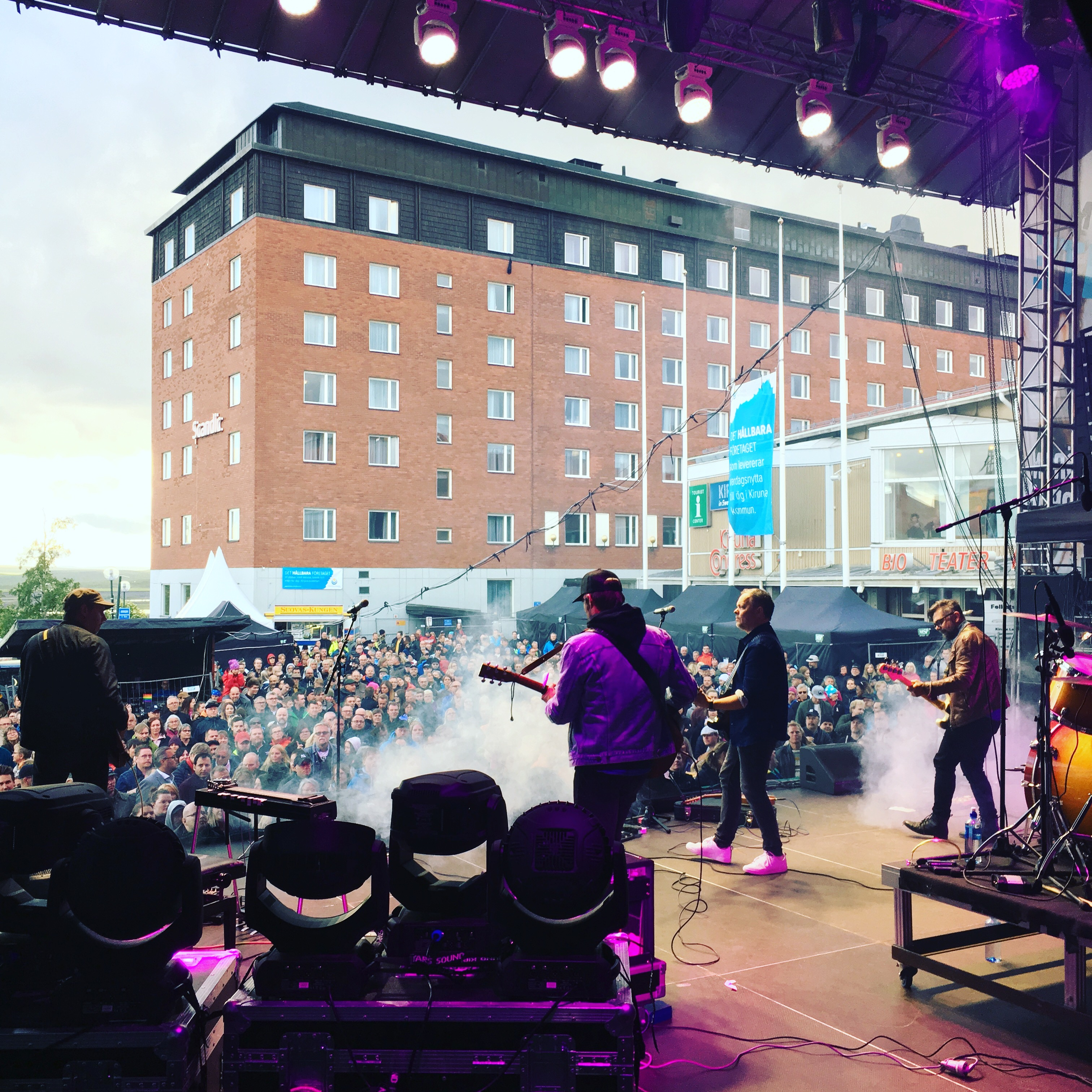 Willy Clay Band live Cityscenen Kirunafestivalen 2019